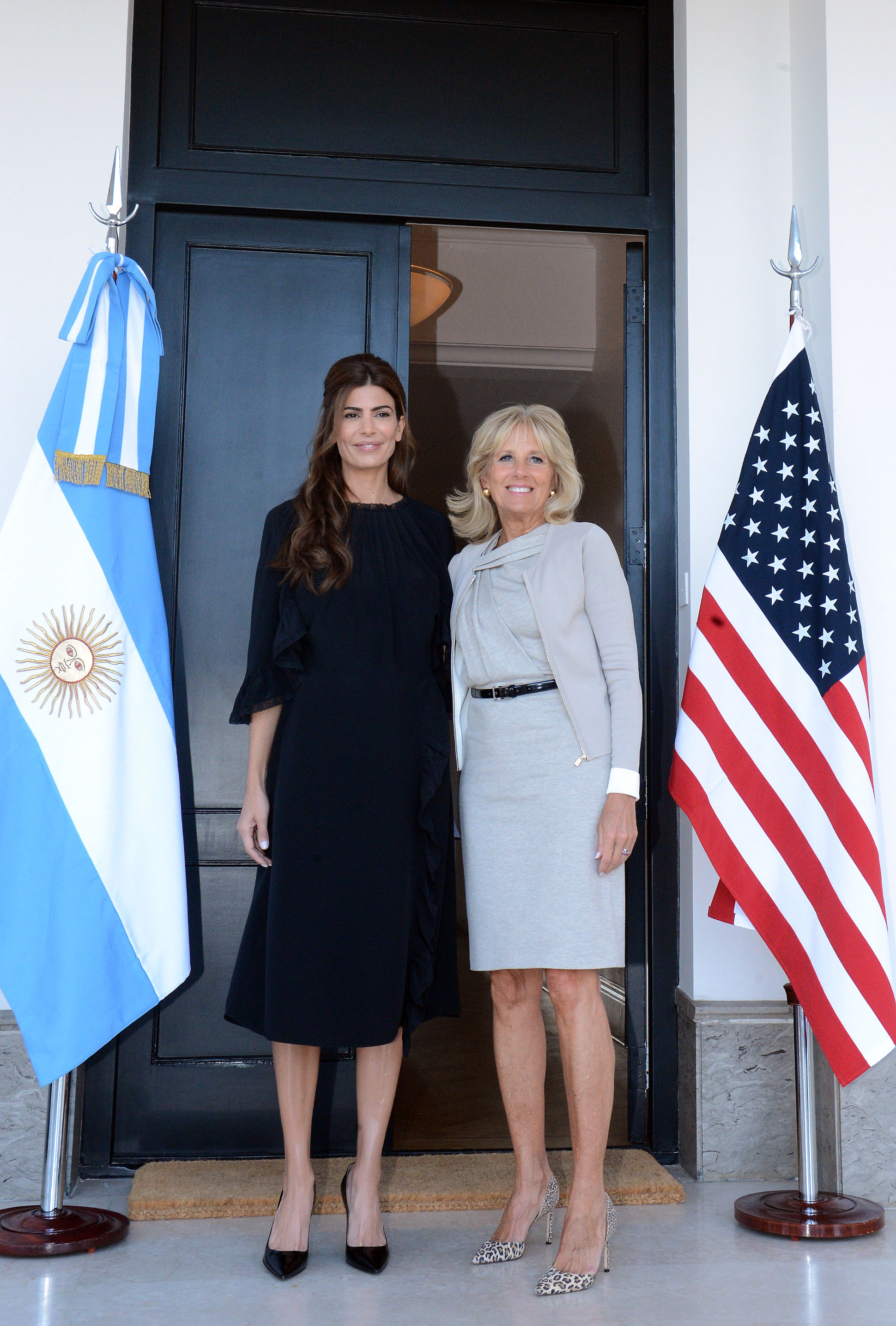 The Argentinian First Lady, Juliana Awada, welcomed the Second Lady of the United States of America, Jill Biden, highlighting her commitment and work with education and women's equal rights defense.